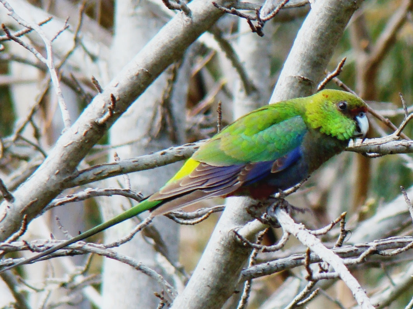 A juvenile Red-capped Parrot at Araluen Golf Club, Perth, Western Australia, Australia.